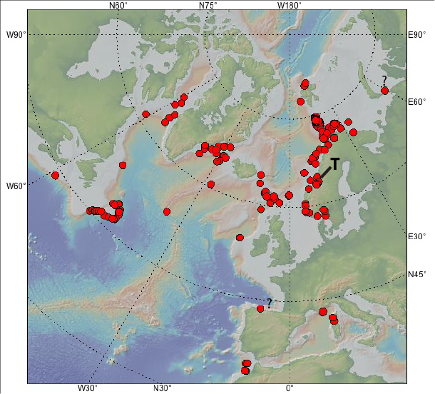 Distribution of Geodia barretti Bowerbank, 1858 (map made with GeoMapApp, T, type locality; ?, dubious records.